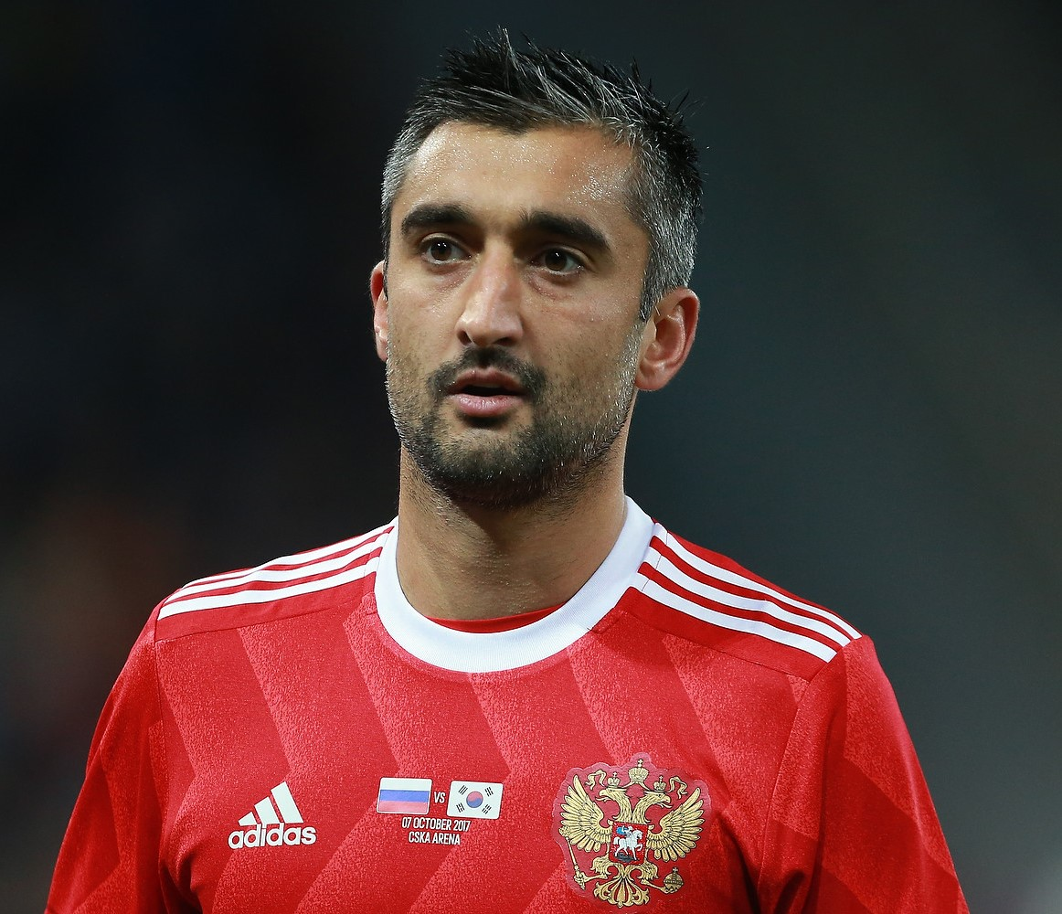 Aleksandr Samedov